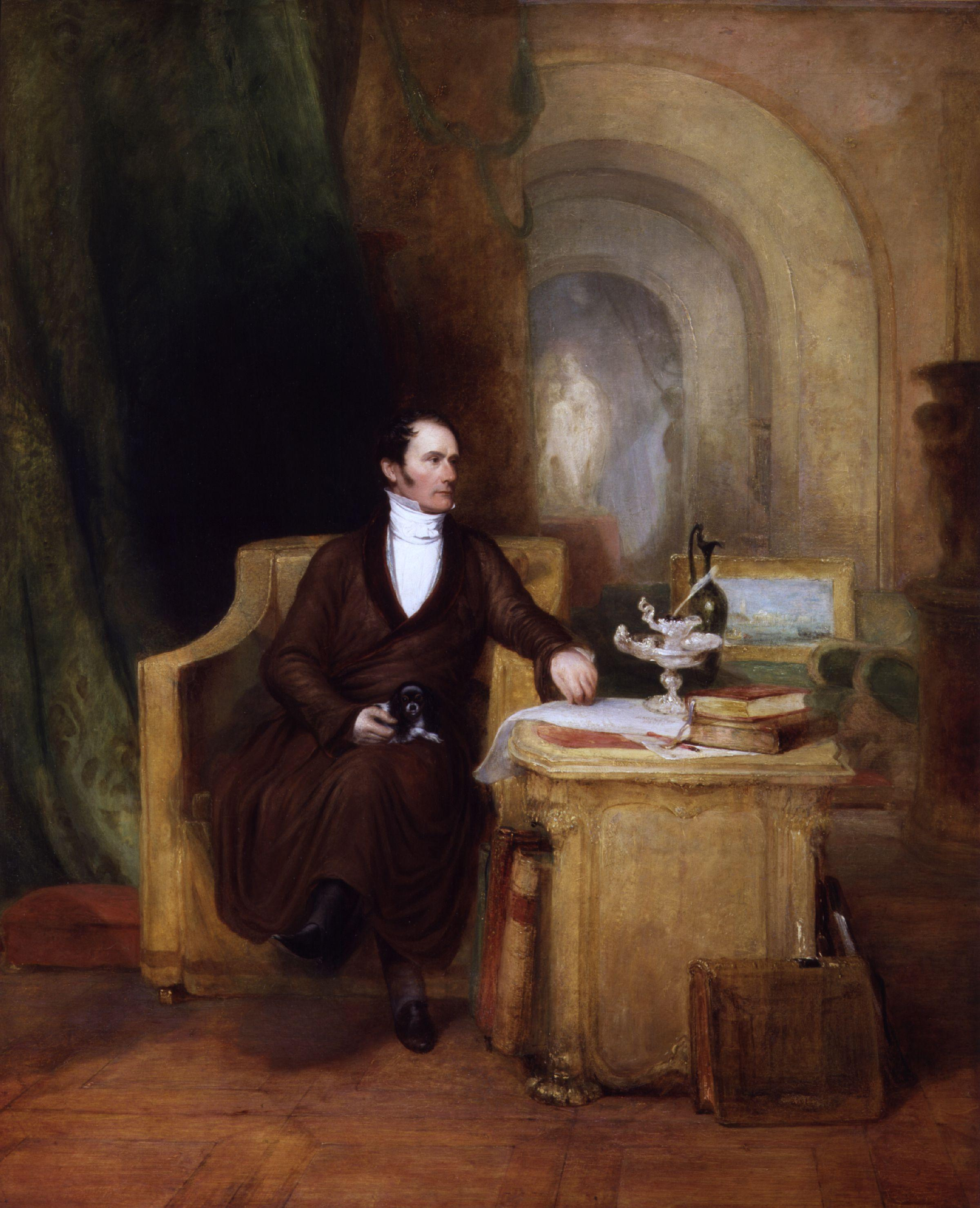 Robert Vernon, by Henry Collen. All images in this batch have a known author, but have manually examined for strong evidence that the author was dead before 1939, such as approximate death dates, birth dates, floruit dates, and publication dates.